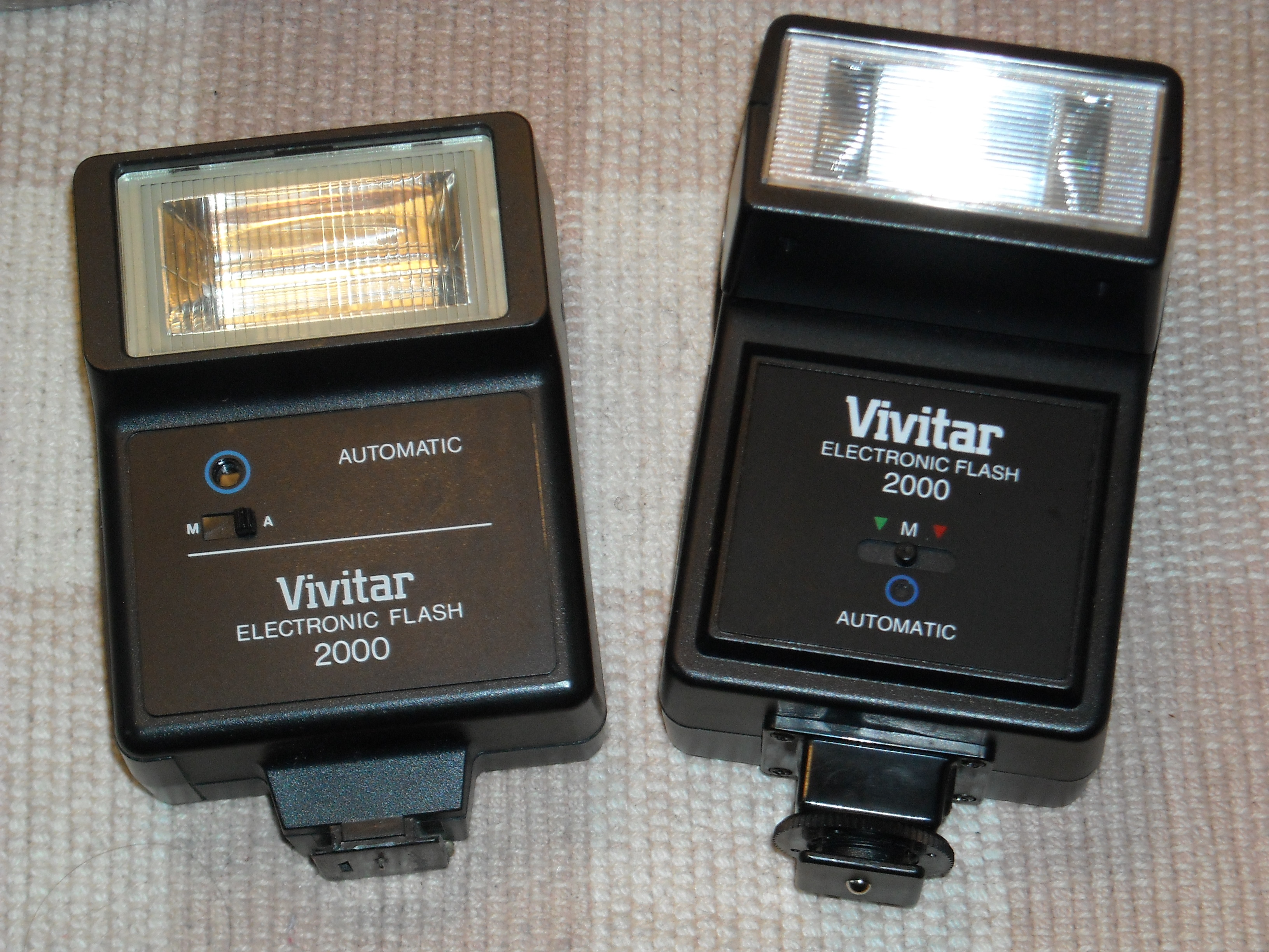 Comparison of Vivitar Model 2000 (left) and Model V2000 electronic flash units.